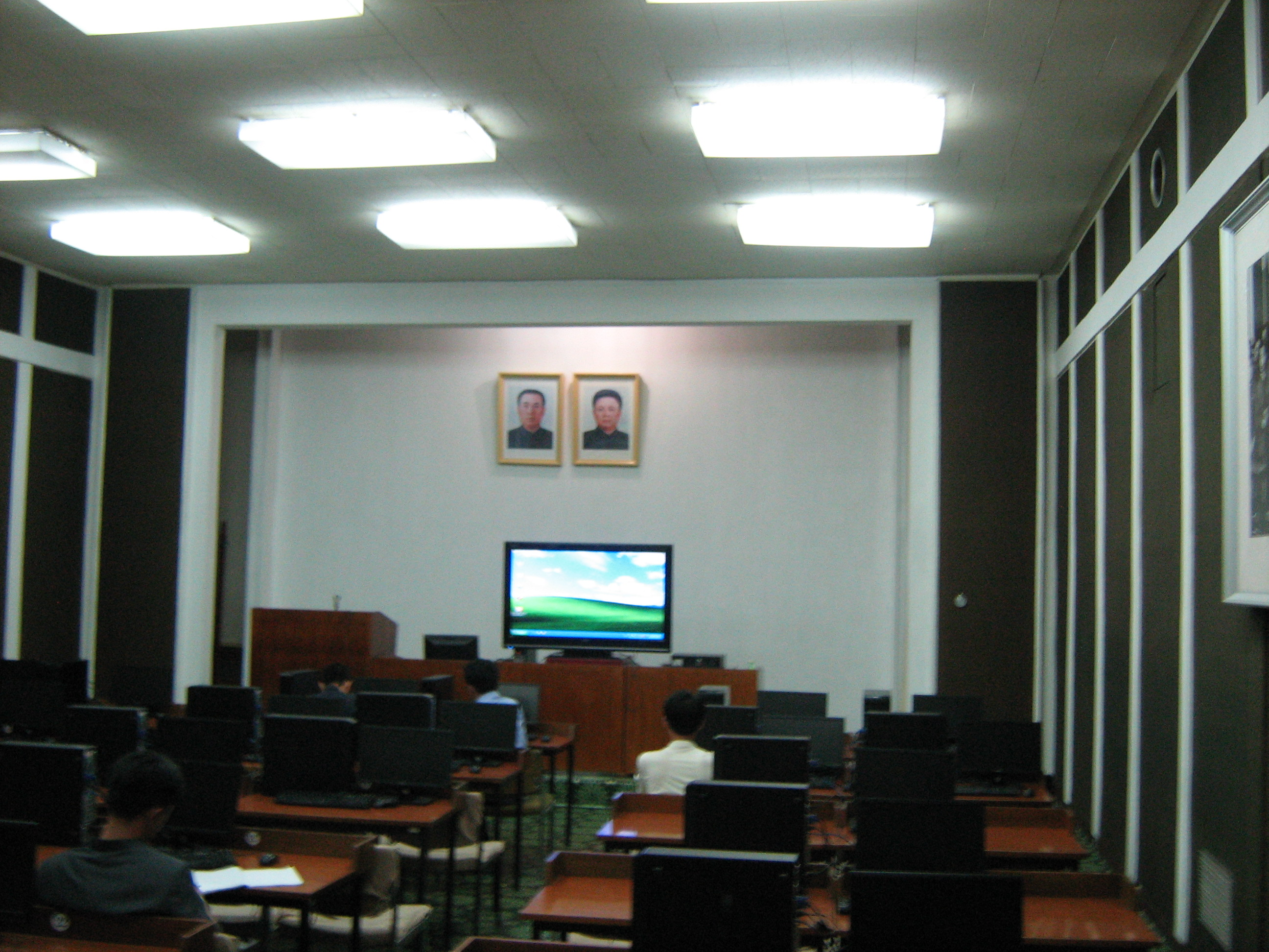 This shows a computer lab in the Grand People's Study House, Pyongyang, North Korea.